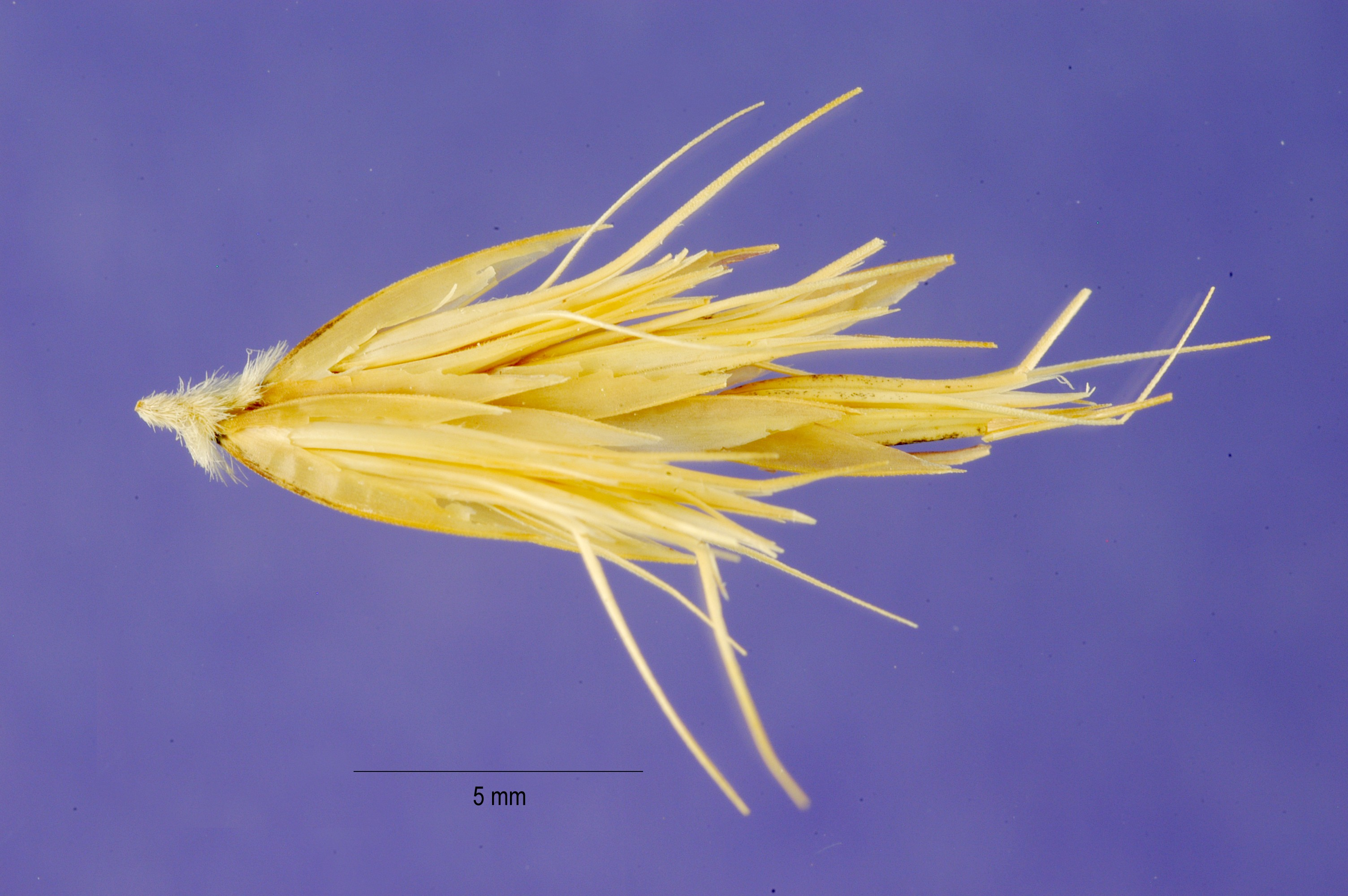 Floret of a grass on a blue background